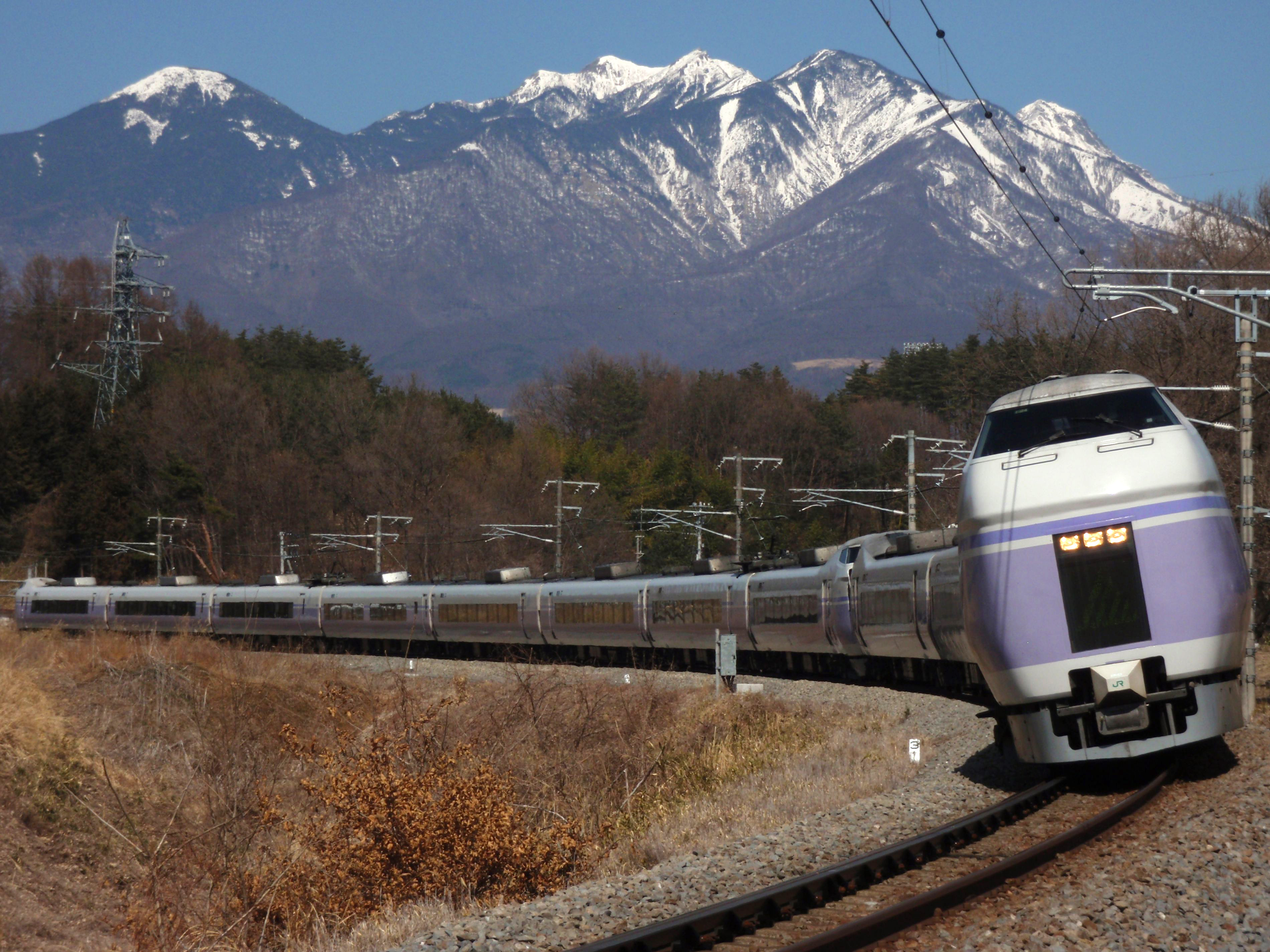 East Japan Railway type E351 "Super Azusa" between Nagasaka Sta. and Kobuchizawa Sta. in Chuo main line against the background of Yatsugatake Volcanic Group.